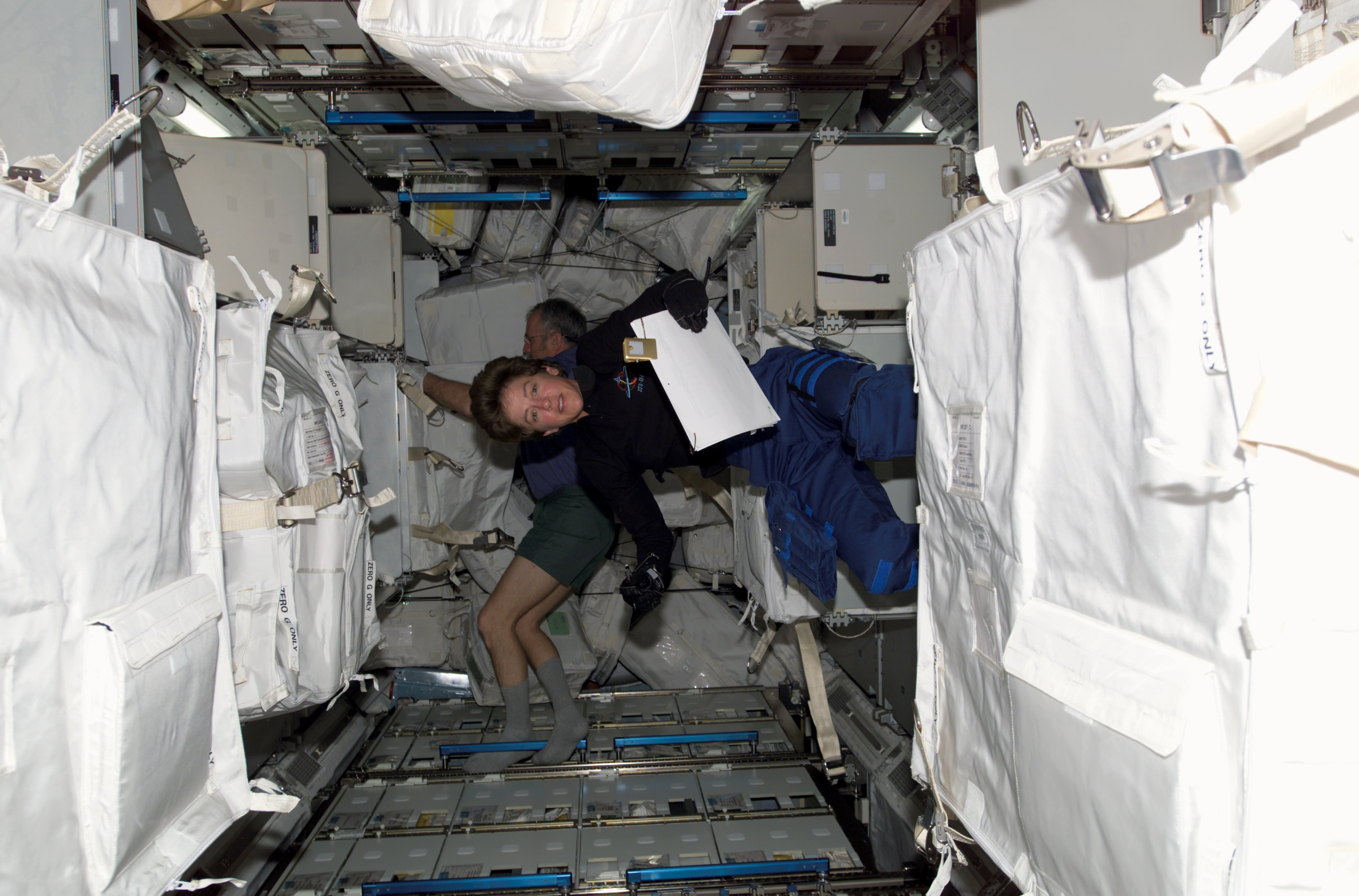 Astronauts Wendy B. Lawrence (foreground) and Andrew S. W. Thomas, STS-114 mission specialists, participate in the movement of supplies and equipment inside Raffaello, the Italian Space Agency-built Multipurpose Logistics Module (MPLM) to the International Space Station. Lawrence was in charge of the transfer operations.